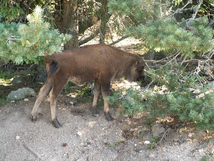 Wisent or European Bison (bison bonasus).